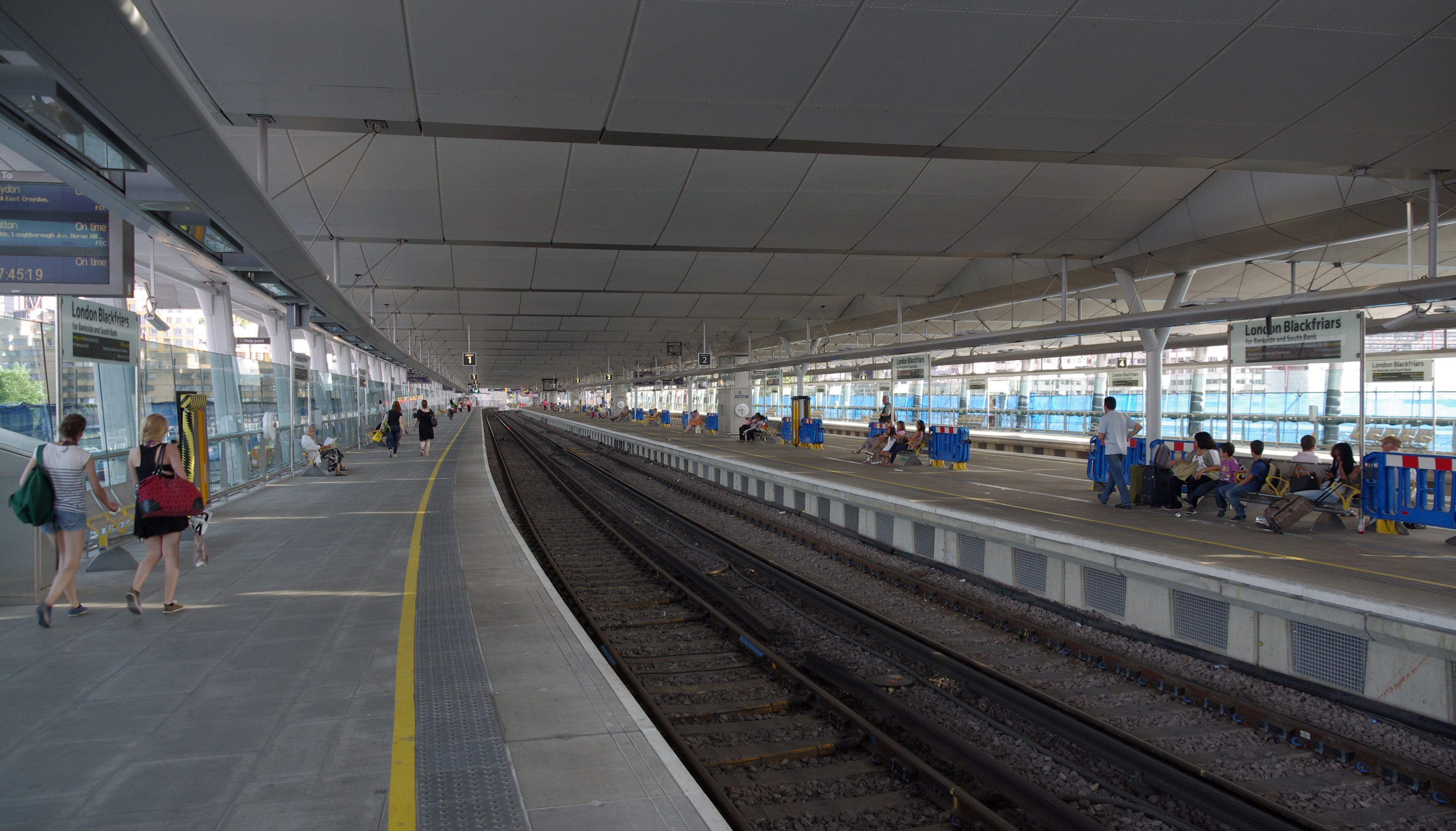 Under the canopy at Blackfriars station, looking south along the southbound through platform.